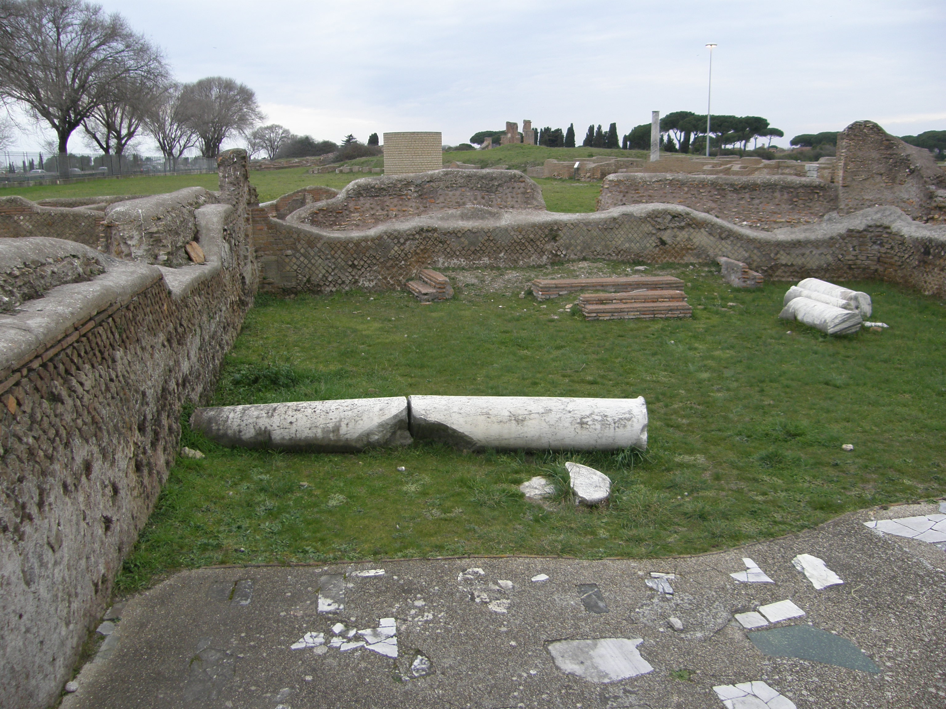 The interior of the ruin of the synagogue at Ostia Antica, Italy.